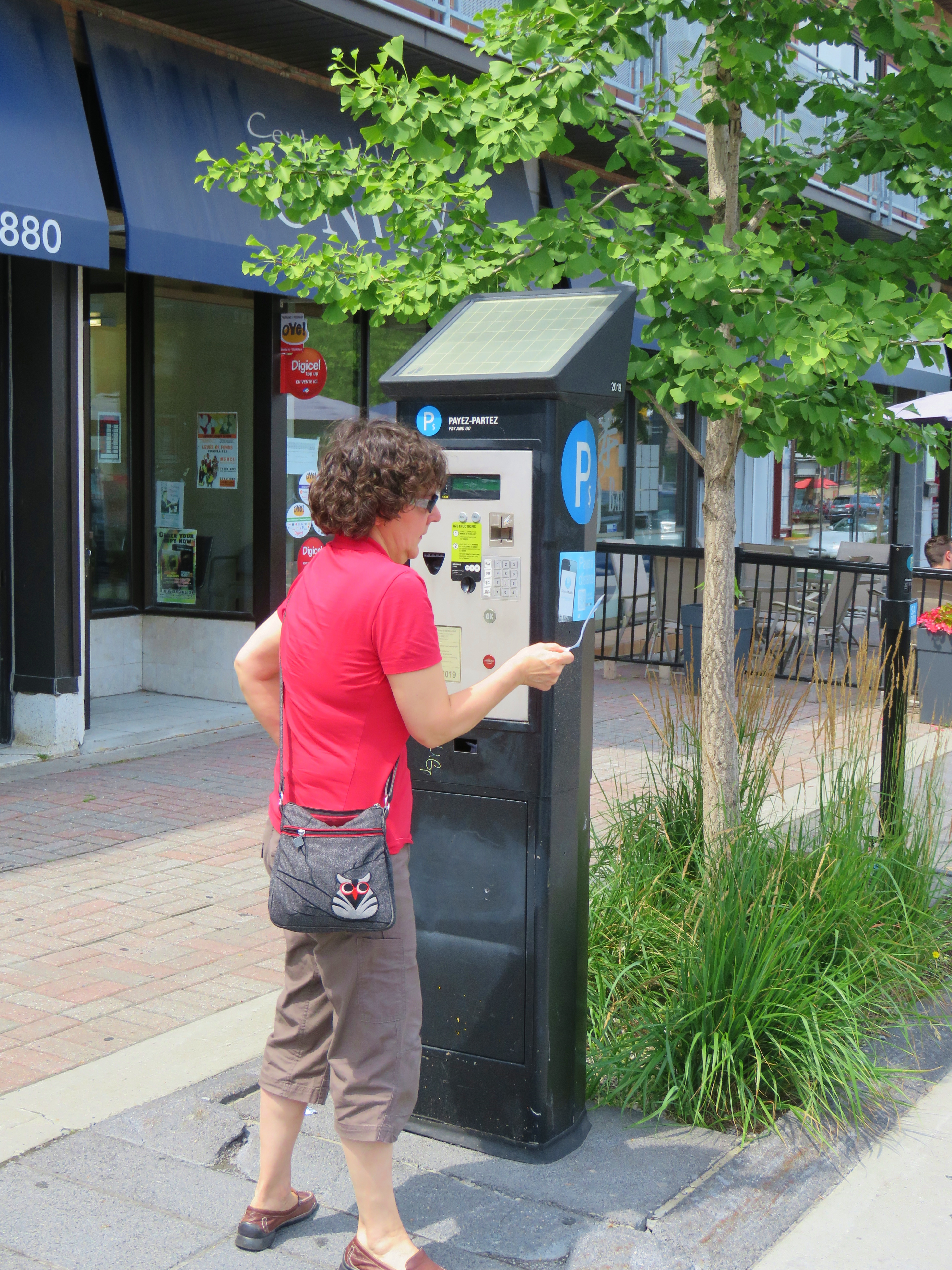 Pay and go Pay Station, automated parking payment machine of Stationnement de Montréal, on Décarie boulevard in the Saint-Laurent borough, Montréal, Québec.